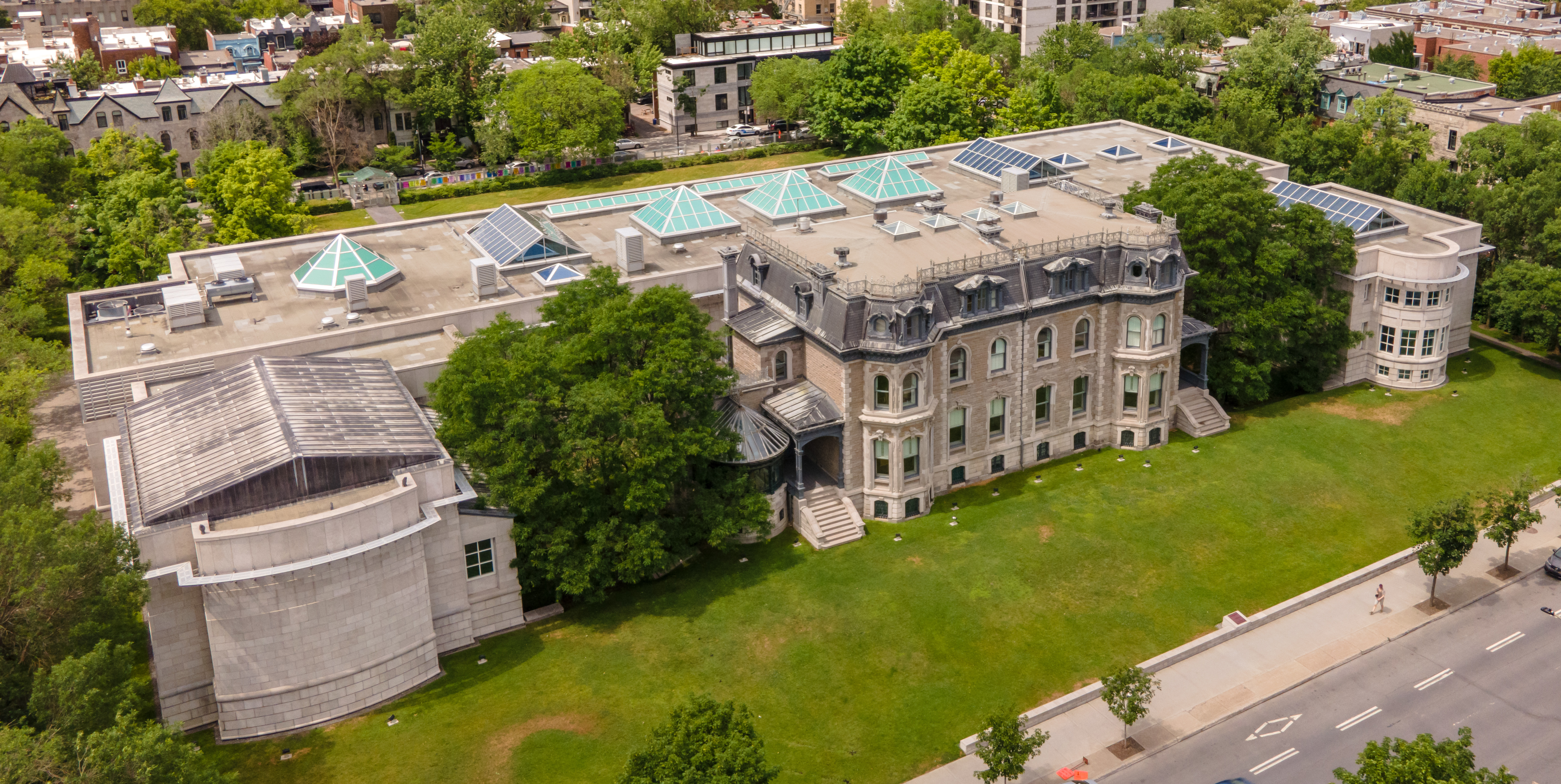 Main building of the Canadian Centre for Architecture view from the air.